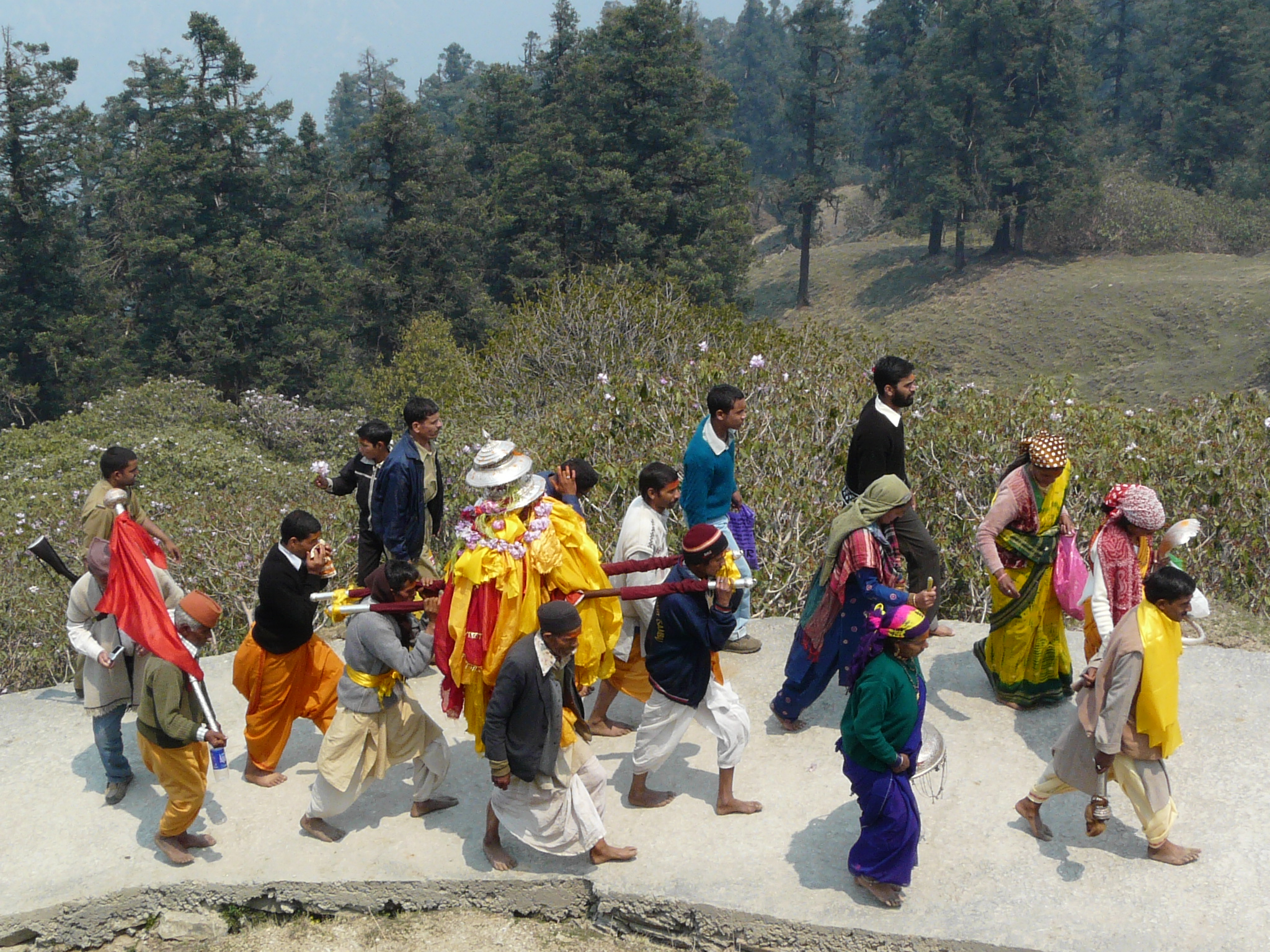 Tungnath idol being taken up to the temple, Uttarakhand.